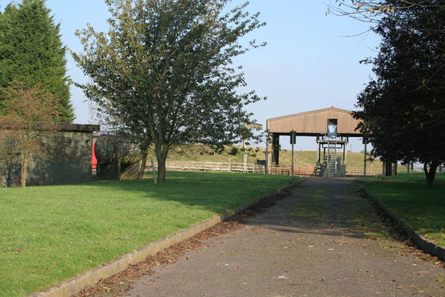 Stonesby PSD (petroleum storage depot), near to Stonesby, Leicestershire, Great Britain. This PSD is shared with Arqiva although the sign on the gate still said it was an NTL site. Arqiva, formerly the broadcast division of NTL Group and now operating independently, has been a leader in the transmission industry for over 50 years. Over 22 million UK homes receive ITV, Channel 4 and five via Arqiva�s national transmitter networks and there is a telecommunications mast in the north east corner of the site, clearly visible on Google Earth. There are also several workshops on the west of the site, with old NTL signage. As for the other operator on this site, the mysterious equipment in the centre of the photograph is for filling road tankers. If you look at Google Earth you can see three large circles shadowed on the ground in the open space beyond which have some sort of associated valve or pump system. These are mounds that cover fuel storage tanks, part of the Government Pipelines and Storage System. (Information provided by Adam Brookes � thank you!) The bank beyond is the edge of the old Bescaby landfill site and the Mowbray Way Long Distance Footpath runs along the top of the bank.